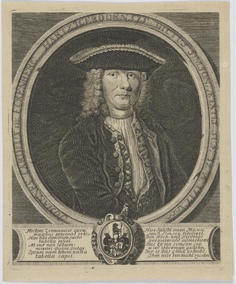 Portrait of Johann Carl von Eckenberg